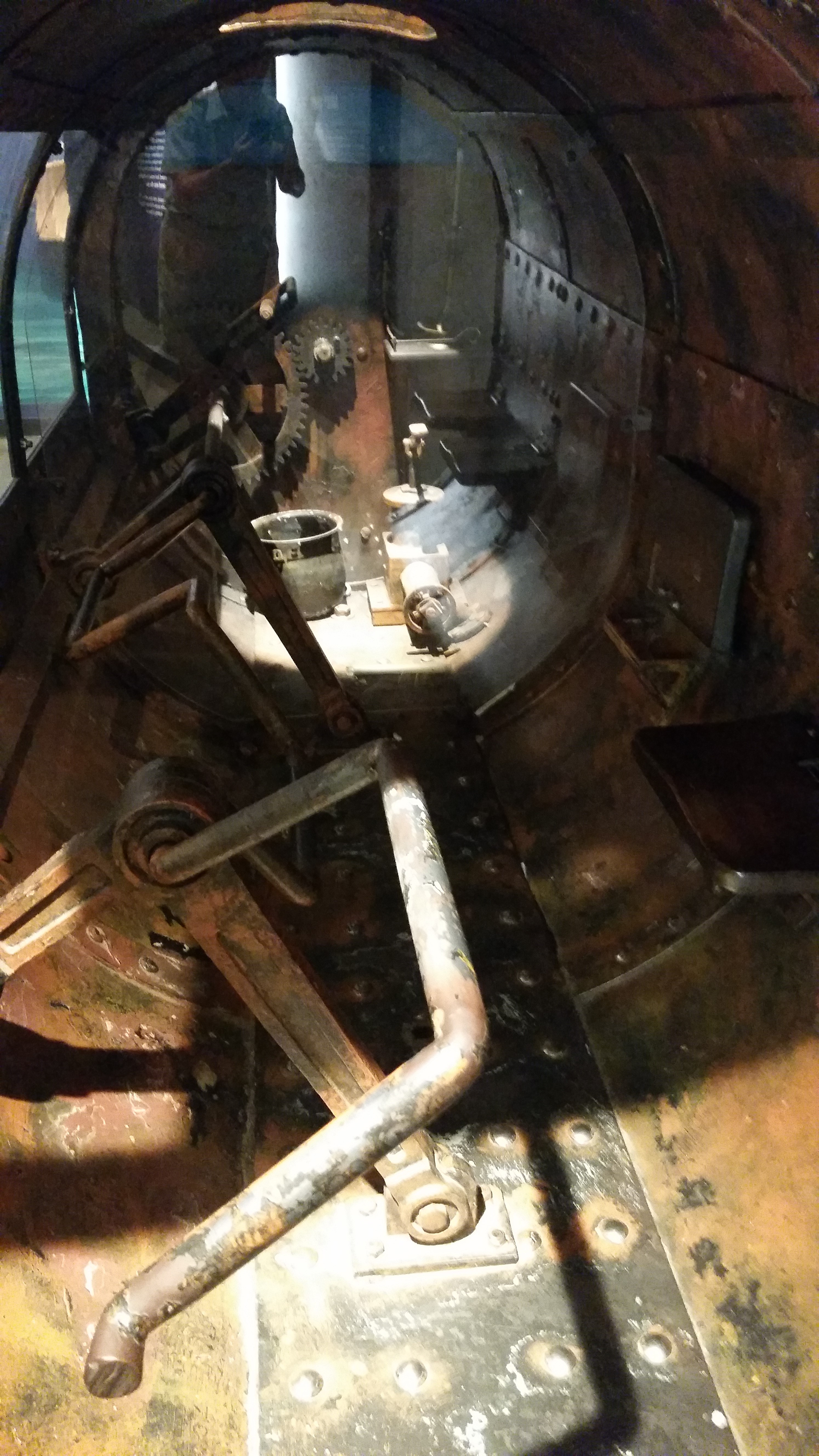 H. L. Henley mock up